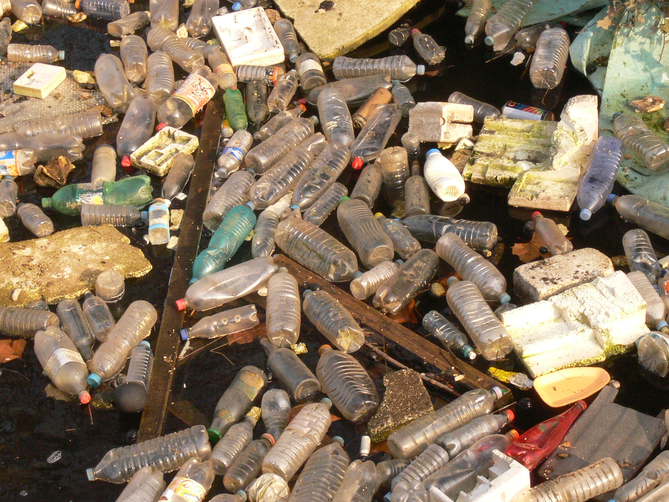 pollution on the river Deule (north of france).